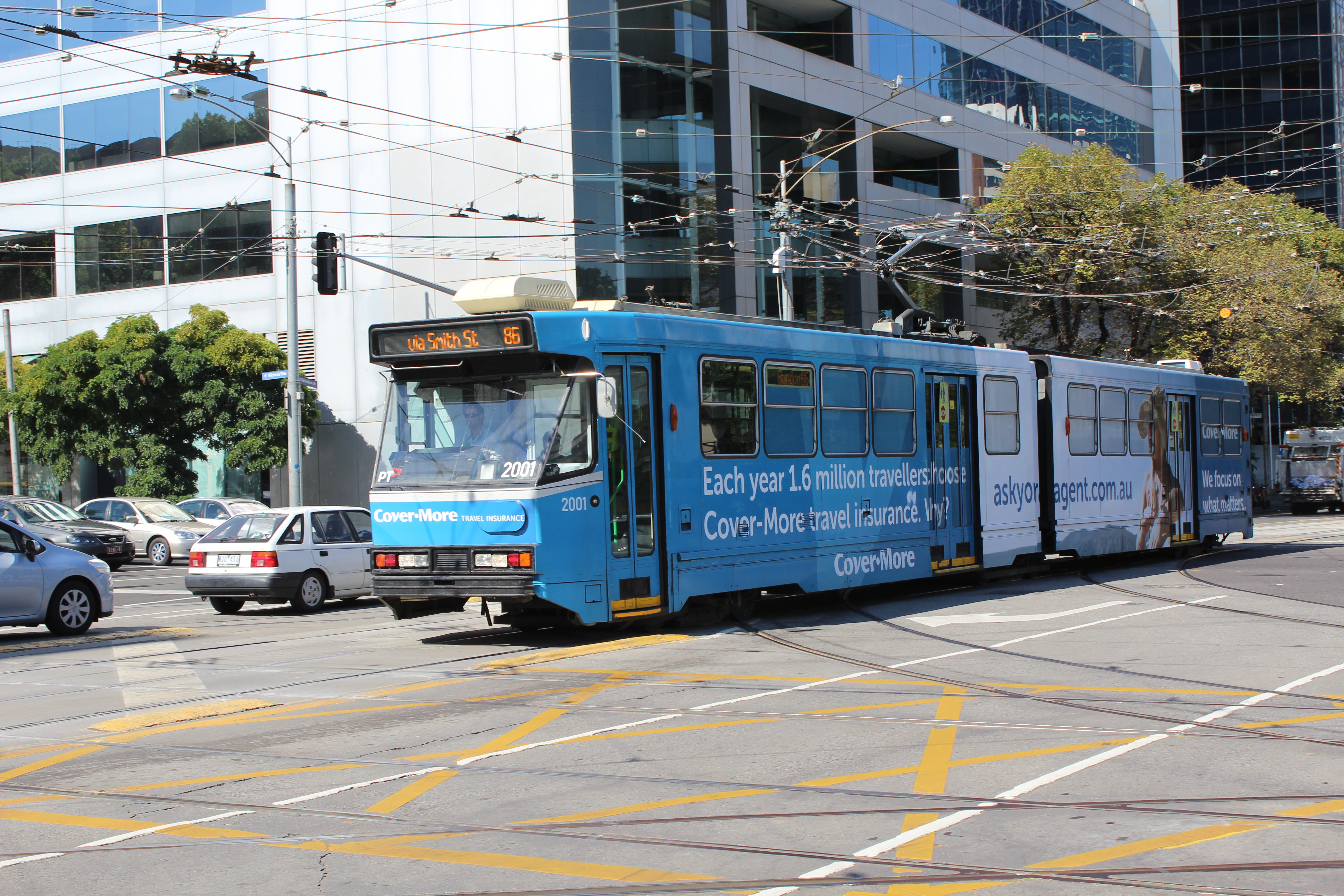 B1 2001 in Nicholson Street operating a route 86 service to Bundoora RMIT, 2013